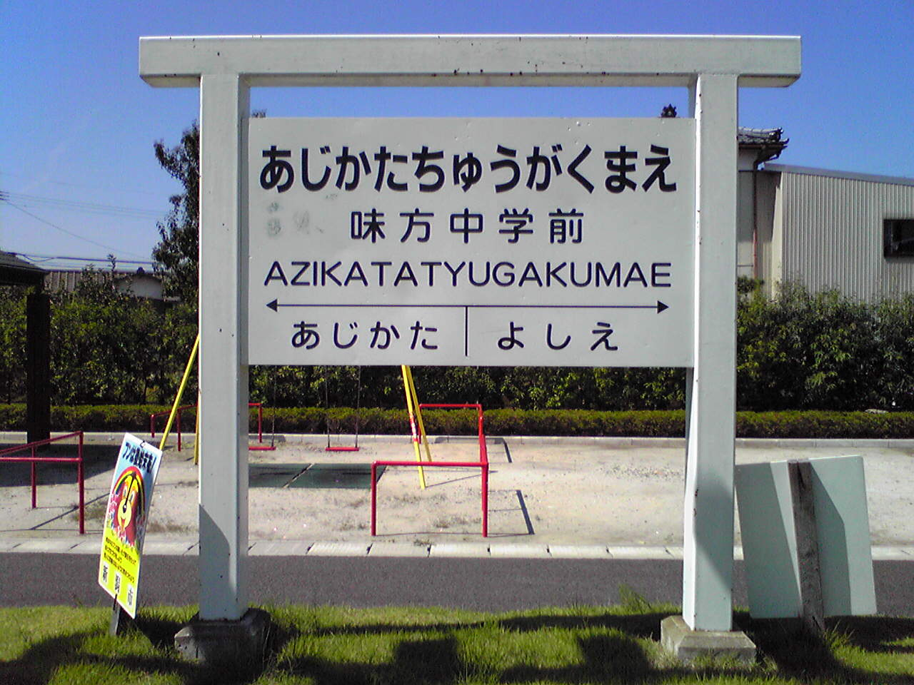 Station signboard which was reproduced in the remains of Ajikata-chugakumae Station, Niigata Kotsu Railway which became the abolished line on April 5, 1999. This station became the abandoned station on April 5, 1999.